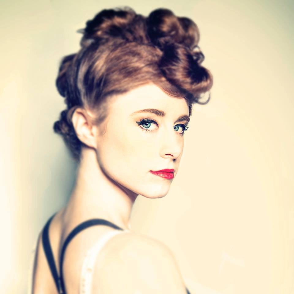 Kiesza